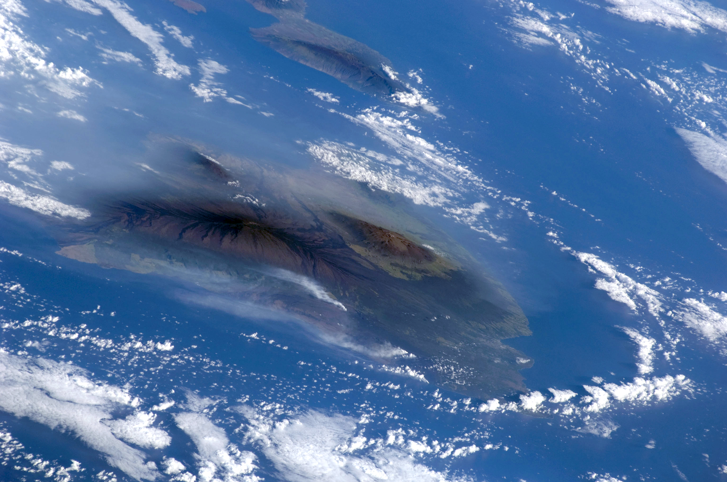 This image, taken by the crew of Space Shuttle Atlantis (after completing the capture of the Hubble Space Telescope), shows volcanic plumes from Kilauea rising up from three locations: Halema‘uma‘u Crater, Pu‘u ‘O‘o Crater, and from along the coastline where lava flows from the East Rift zone were entering the ocean. The plumes have created a blanket of volcanic fog, called vog, that envelops the island.